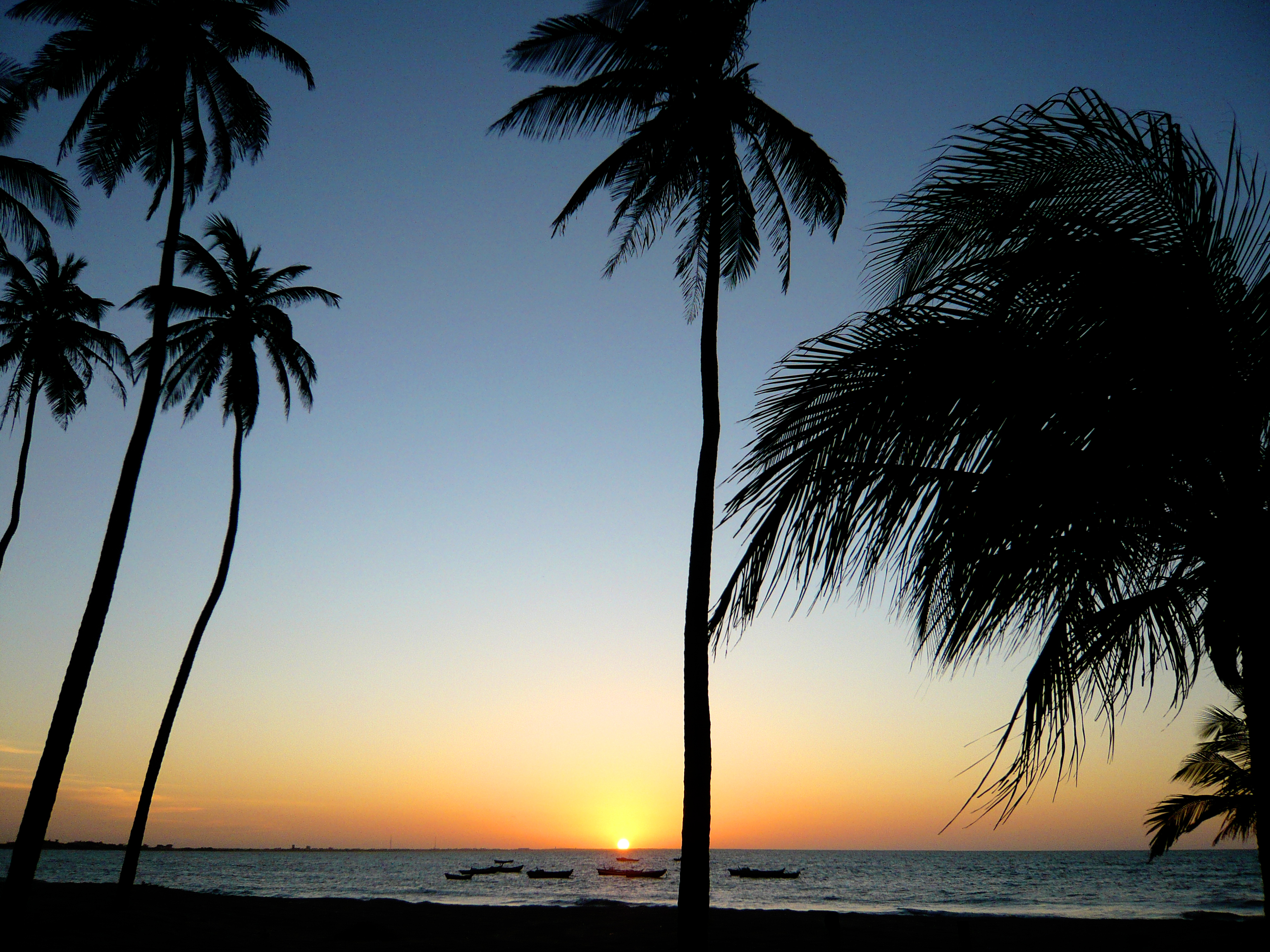 Coqueiro Beach. Luís Correia, Ceará, Brazil